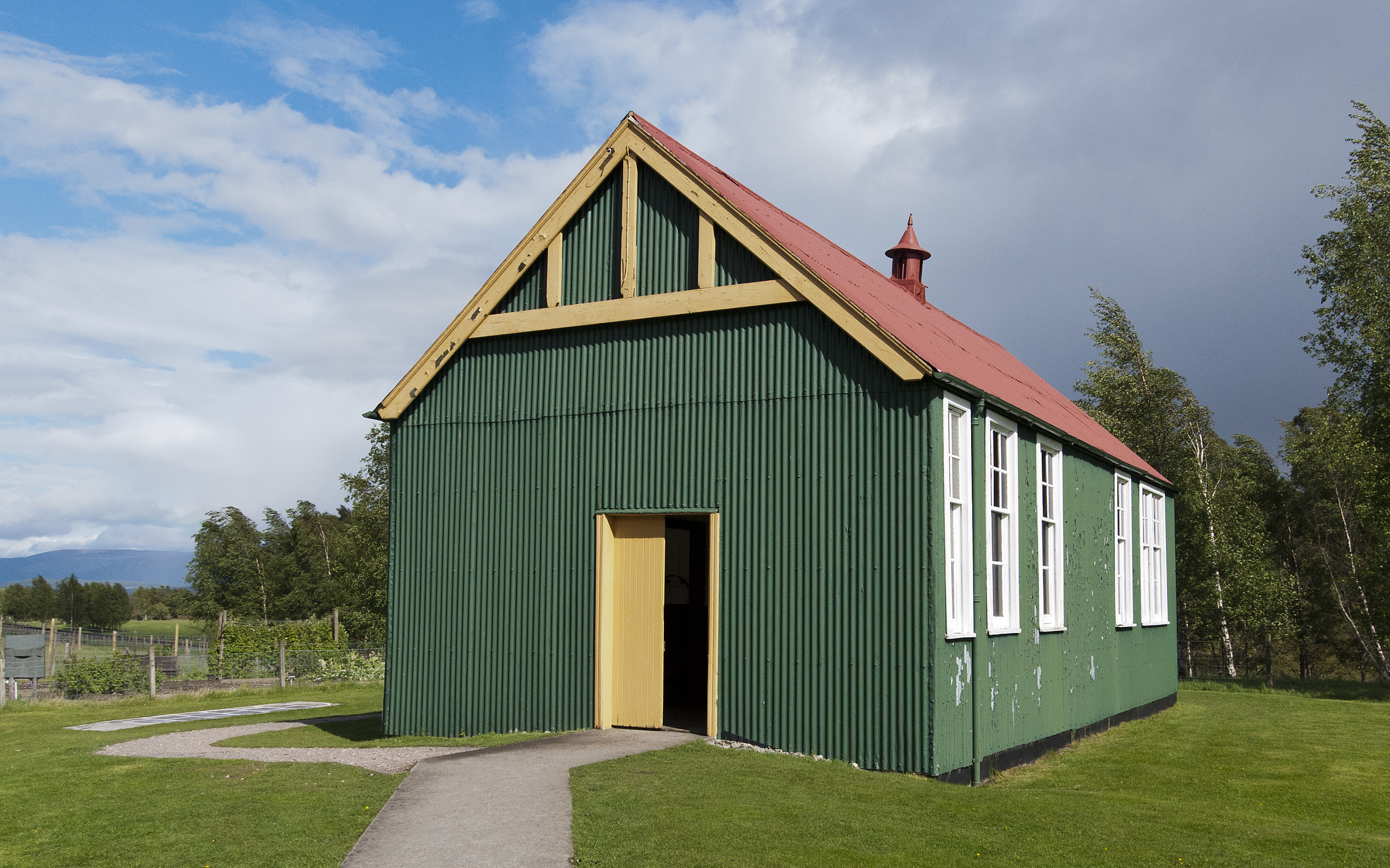 Knockbain School from Kirkhill parish near Inverness, at the Highland Folk Museum, Newtonmore, Scotland